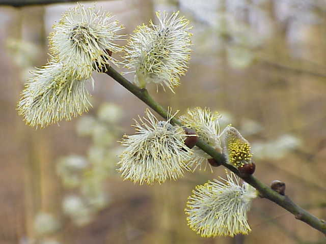 Species: Salix caprea Family: Salicaceae Image No. 4